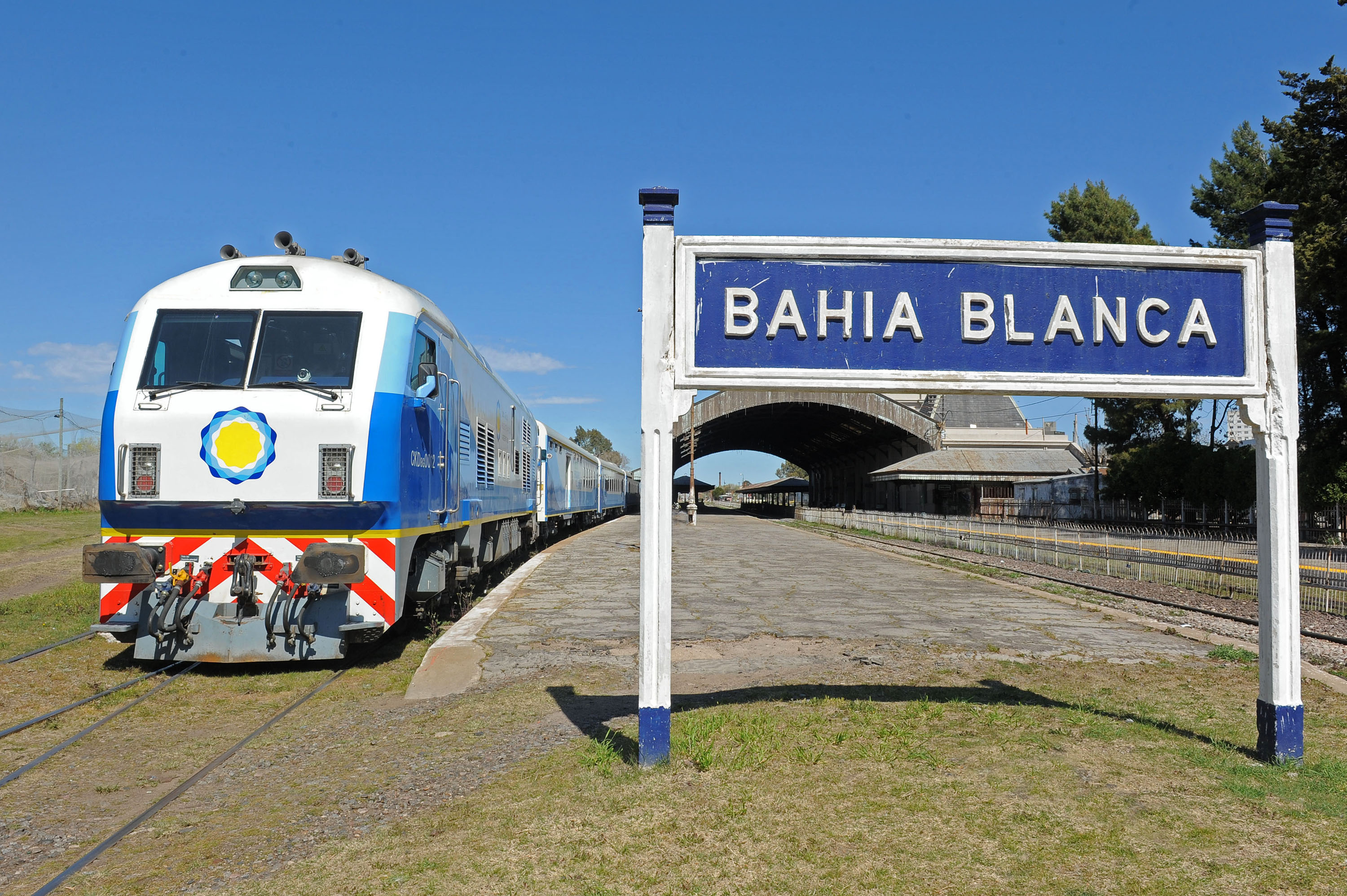 A Trenes Argentinos CNR CKD8 locomotive at Bahia Blanca Sud railway station.